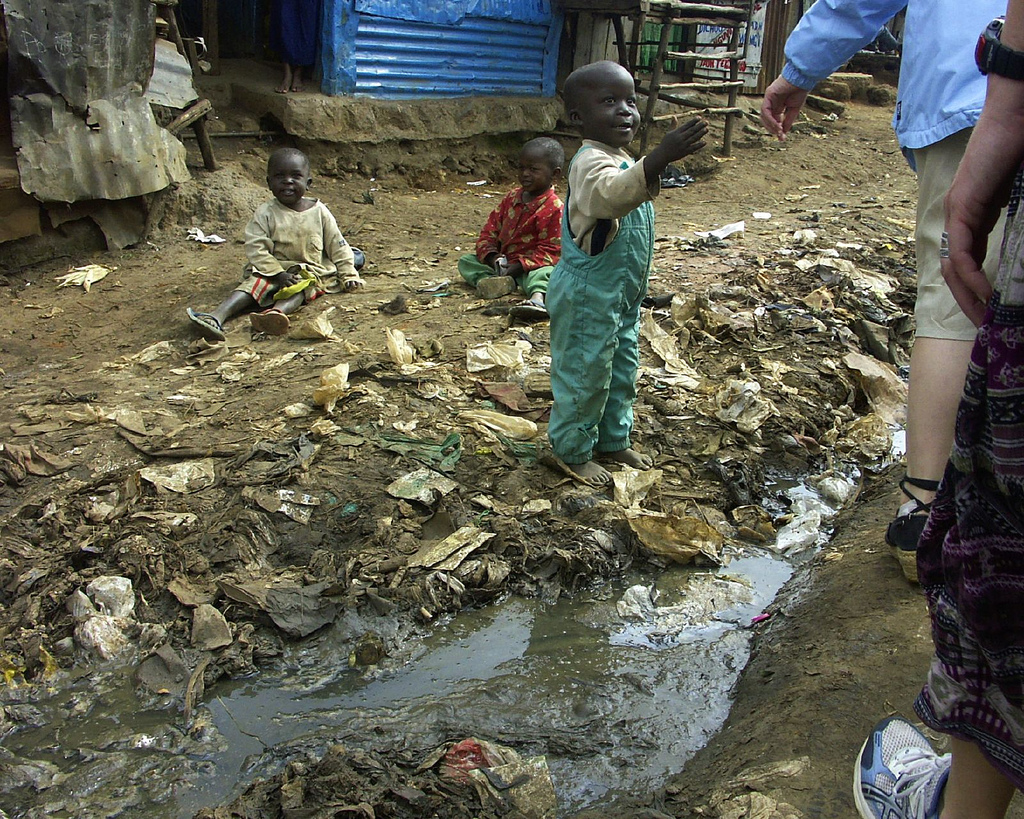 Children and open sewer in Kibera.